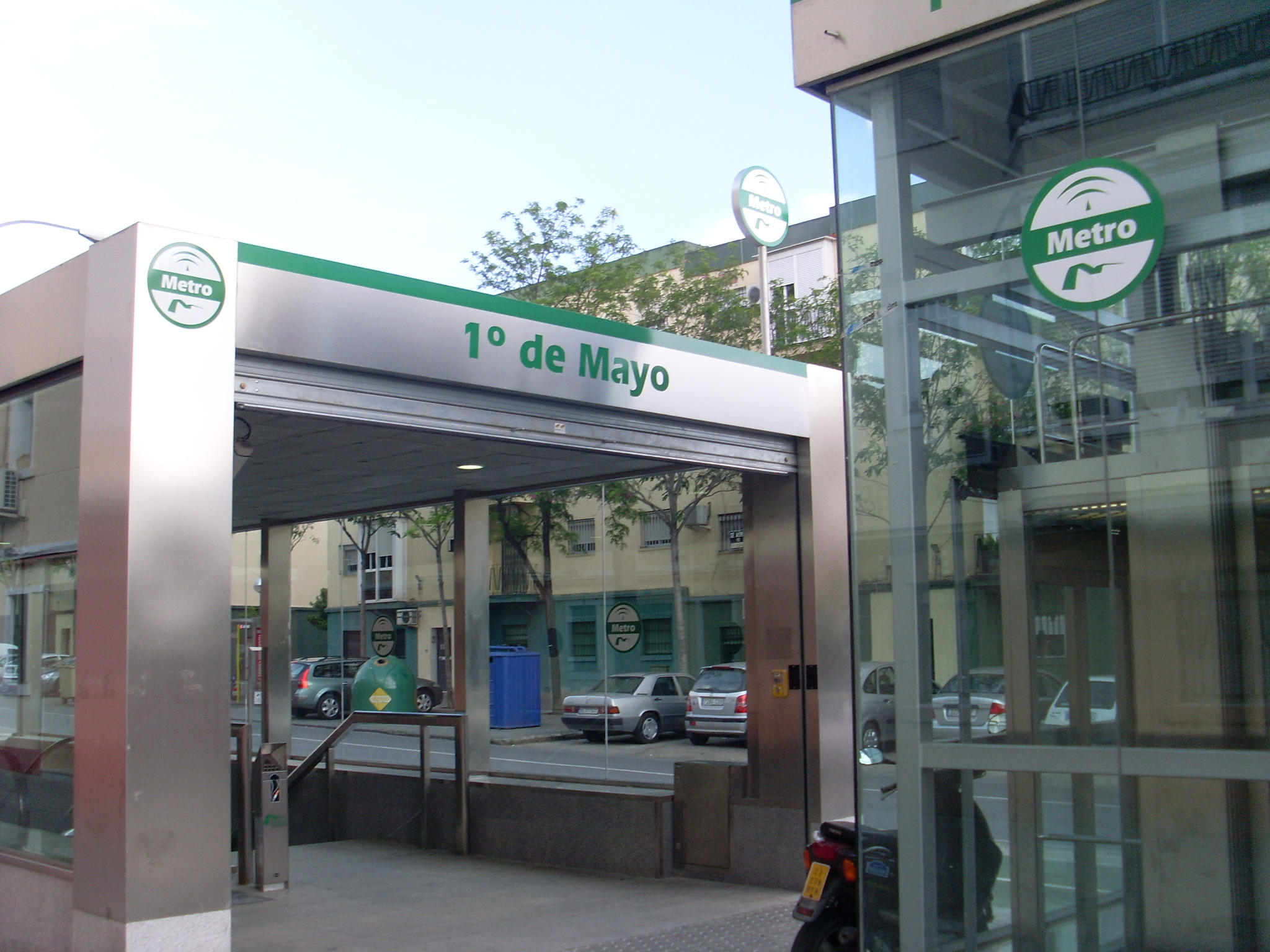 Seville Subway: 1º de Mayo station. Access view.